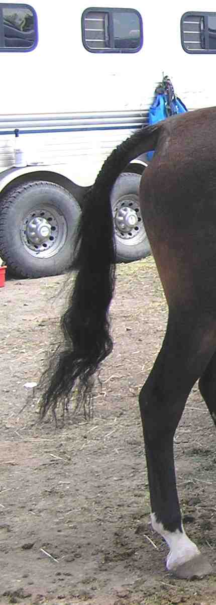 A horse's tail french braided for a hunter-style class